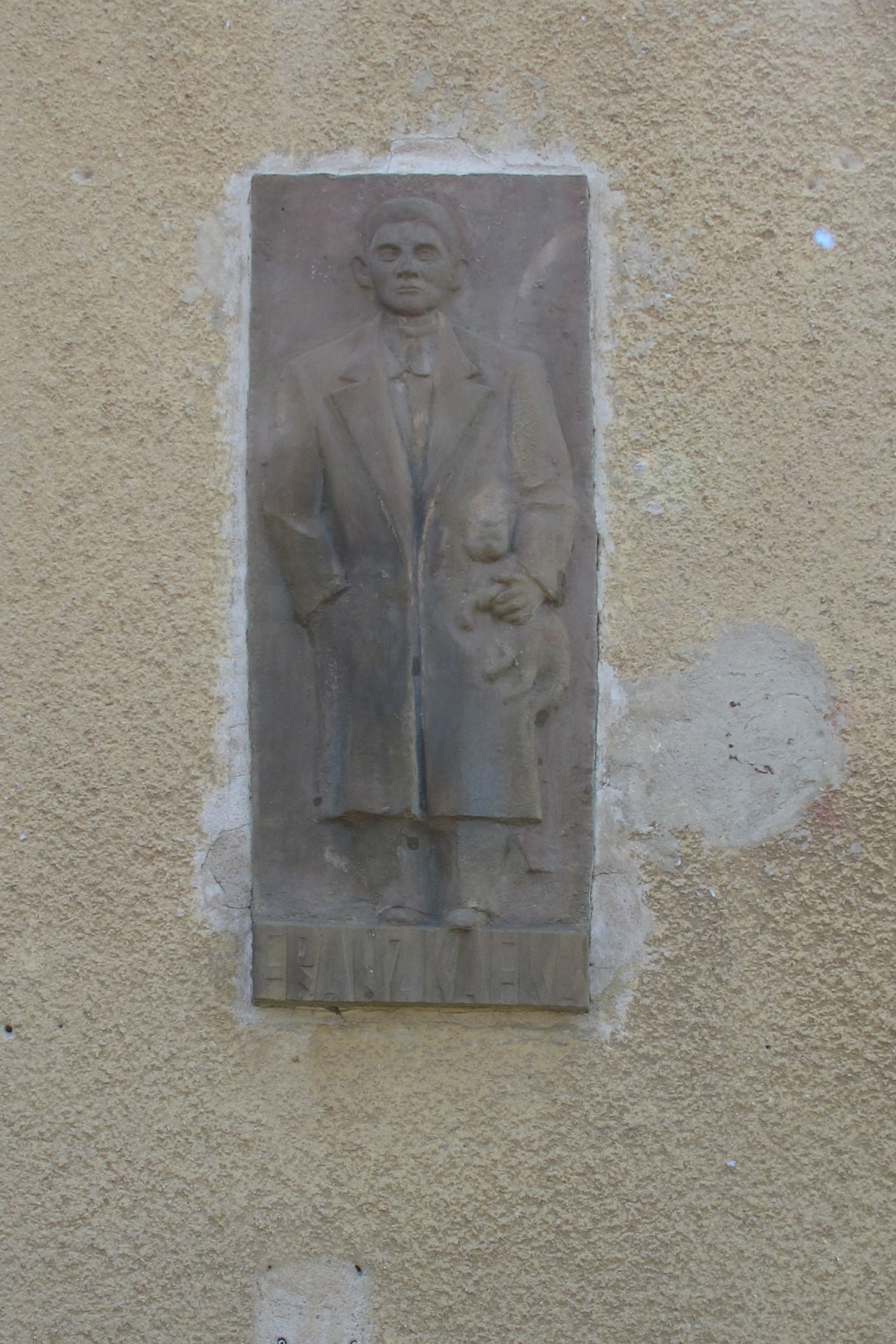 Bust of Franz Kafka in Siřem, Czech Republic